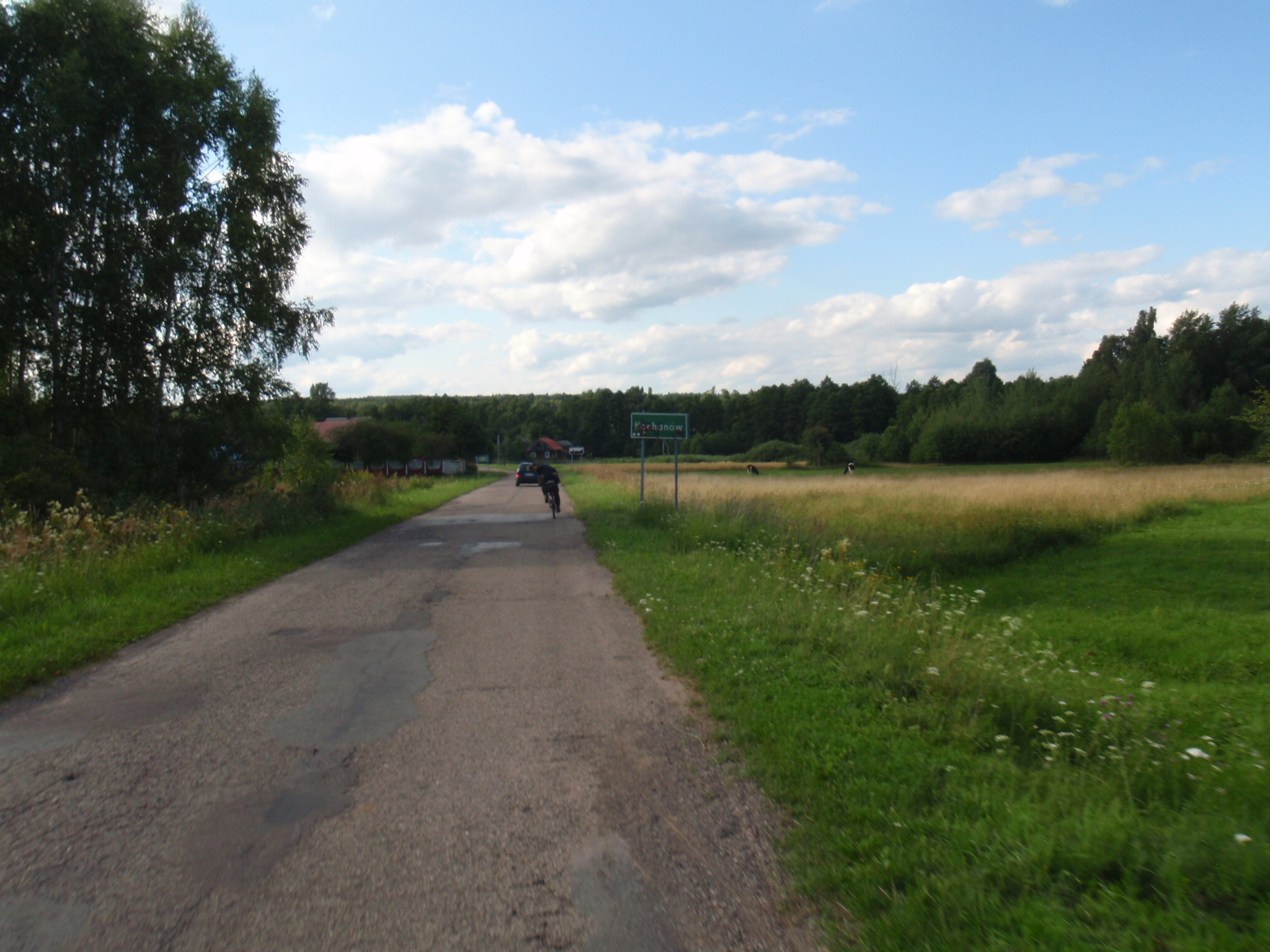 Kochanów powiat przysuski, entrance from Nadolna